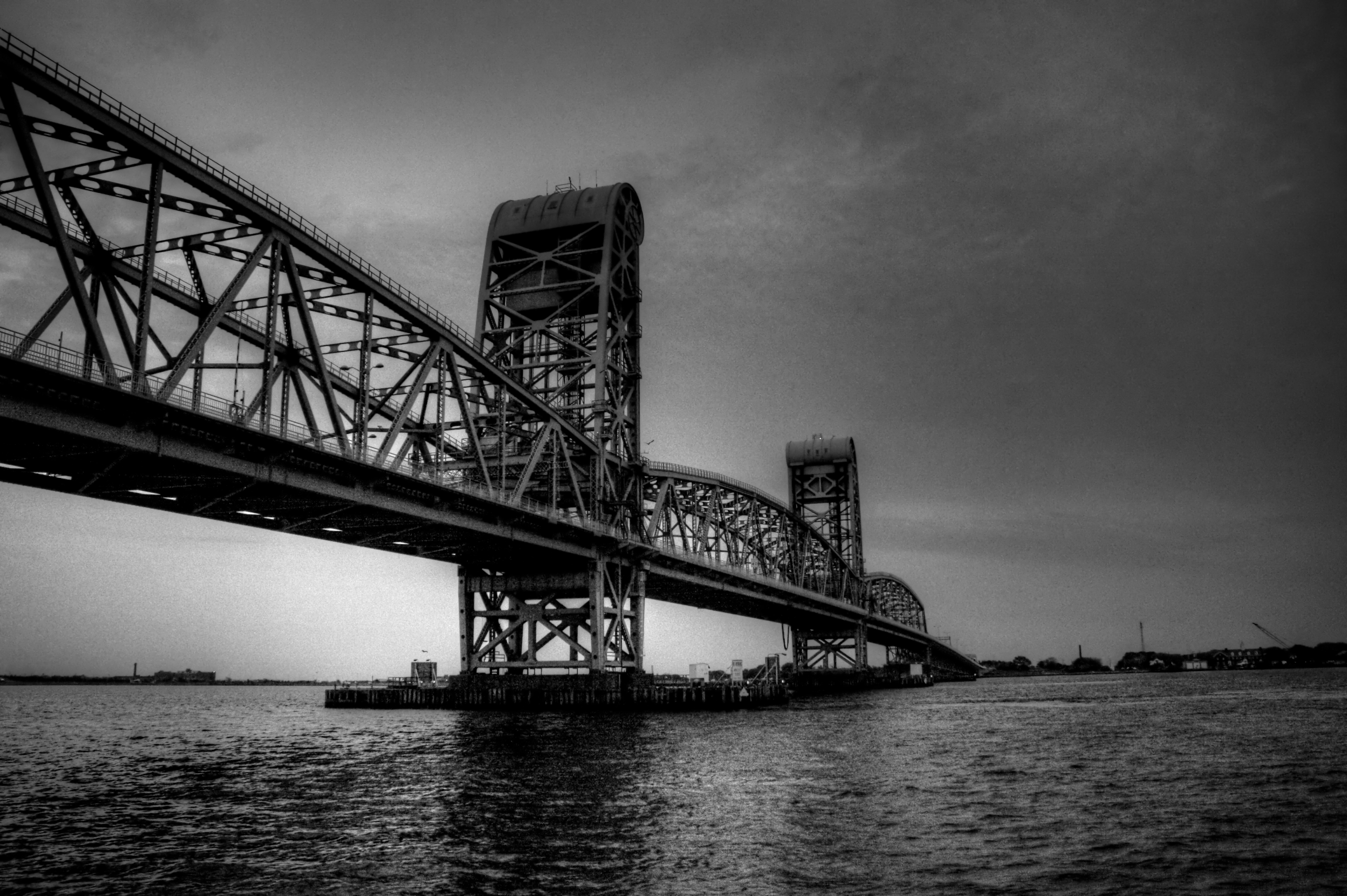 Marine Parkway-Gil Hodges Memorial Bridge